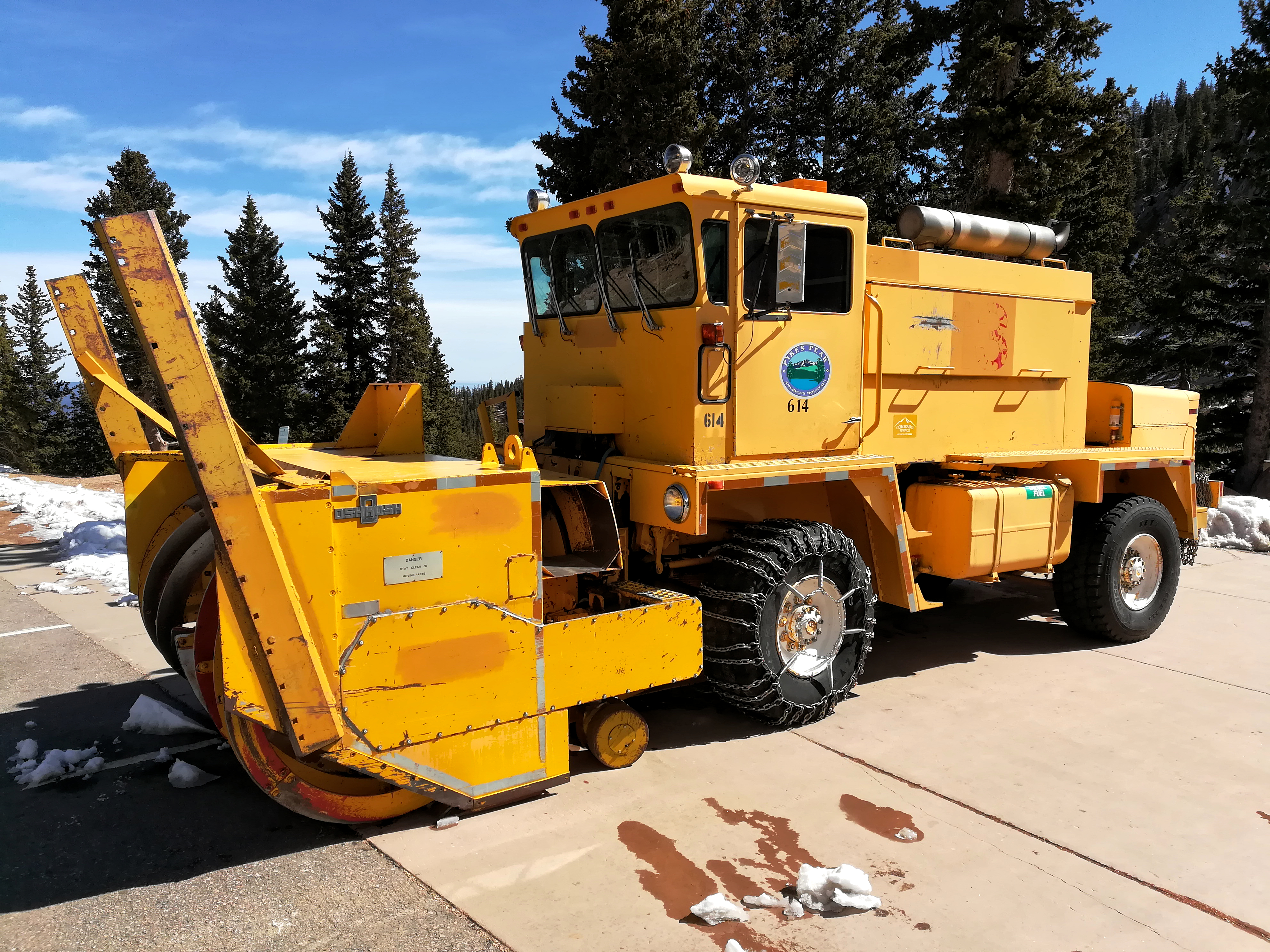 Snow thrower truck